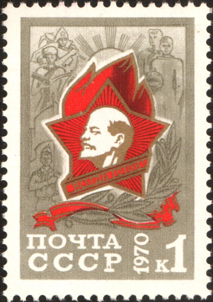 USSR stamp: Pioneer Badge and Ribbon of the Order of Lenin. Series: Pioneer Organization